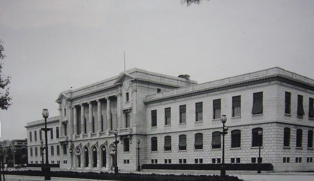 Municipal Board of the former French concession in Tianjin